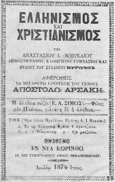 Cover of "Χριστιανισμός και Ελληνισμός" (Christianity and Hellenism) by Anastastios (M)pykaios (Anastas Byku), 1874